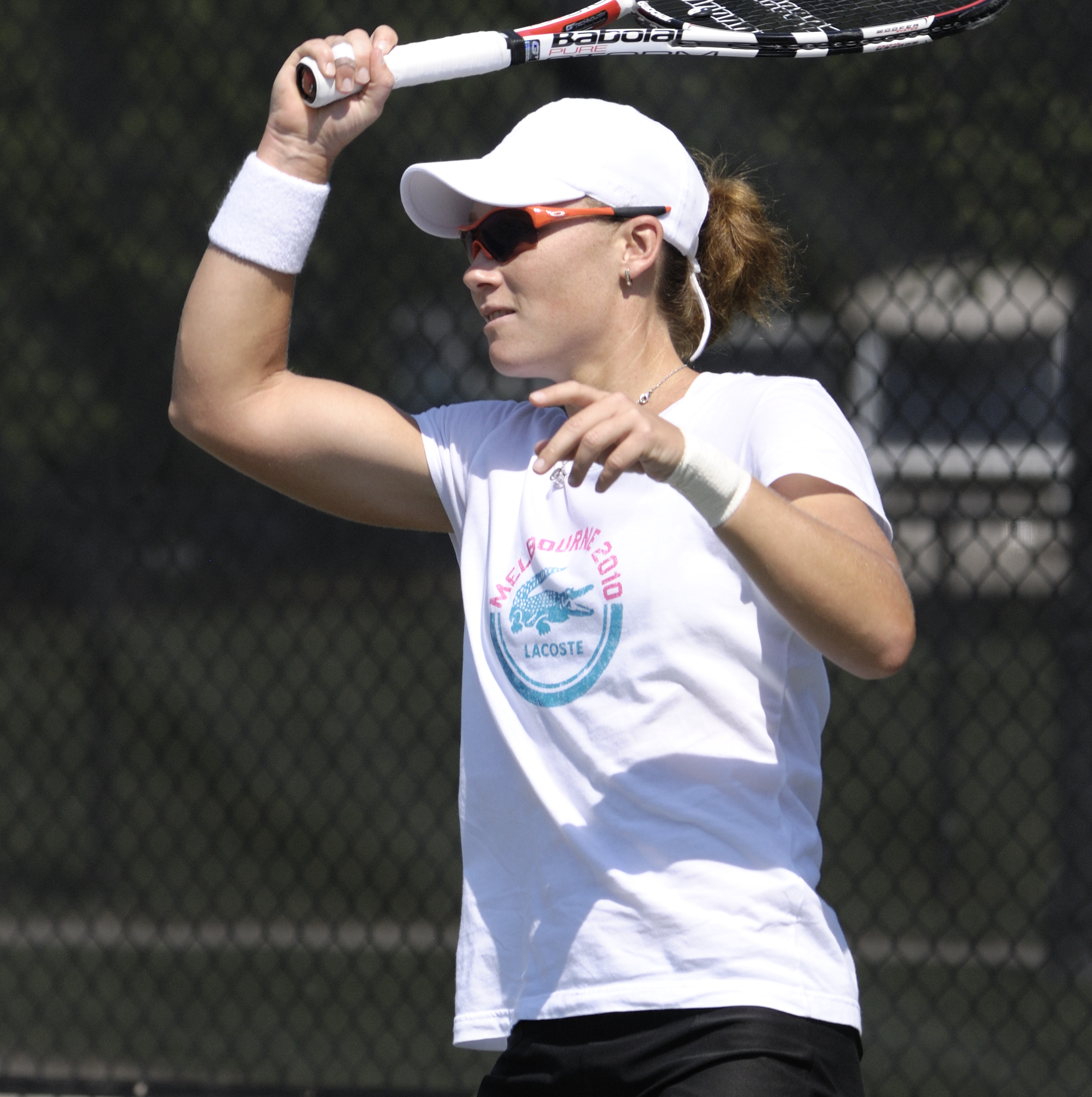 Stosur at the 2010 Family Circle Cup.